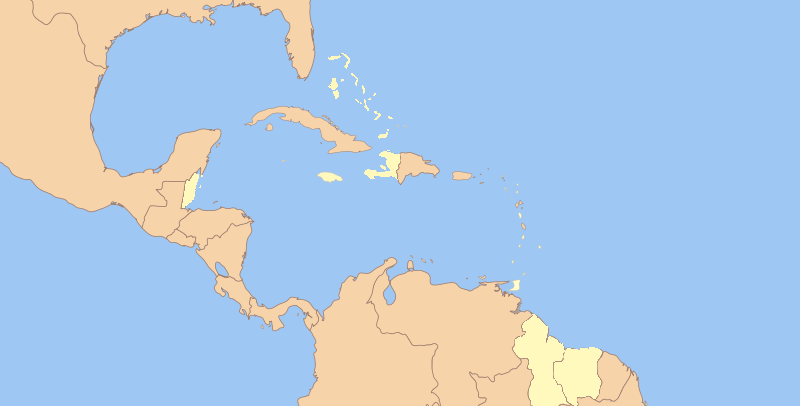 A map of the former West Indies Federation. Map of CARICOM member States.